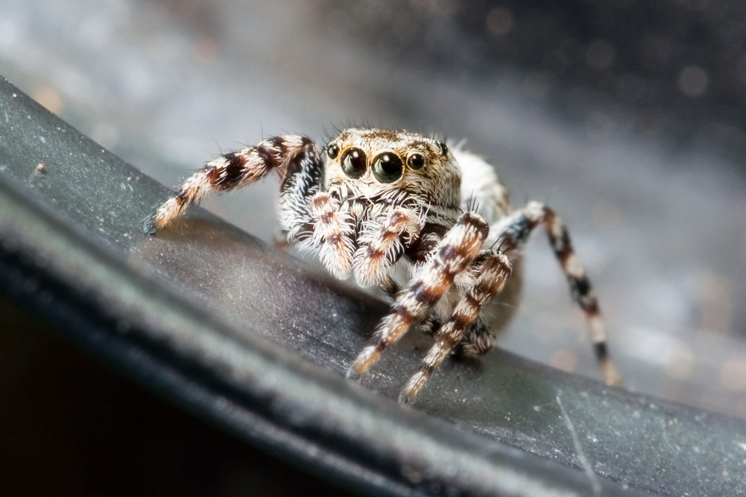 Peppered jumper (Pelegrina galathea) (female) at Shelby Park in Nashville, Tennessee. Body length: 4.5 mm.